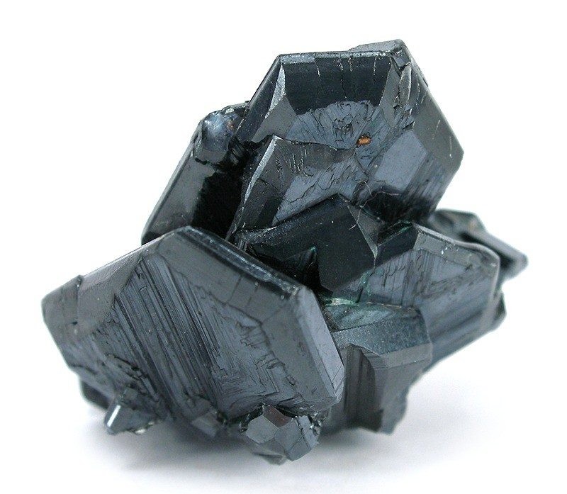 Chalcocite Locality: Mammoth Mine, Mount Gordon, Gunpowder District, Mt Isa - Cloncurry area, Queensland, Australia (Locality at ) Size: 3.0 x 2.9 x 2.4 cm. A killer toenail-sized specimen with sharp, 2 cm crystals sticking straight up and out, very 3-dimensional. The front and sides are pristine; there is only one break in back, on one of the smaller rear-facing crystals.